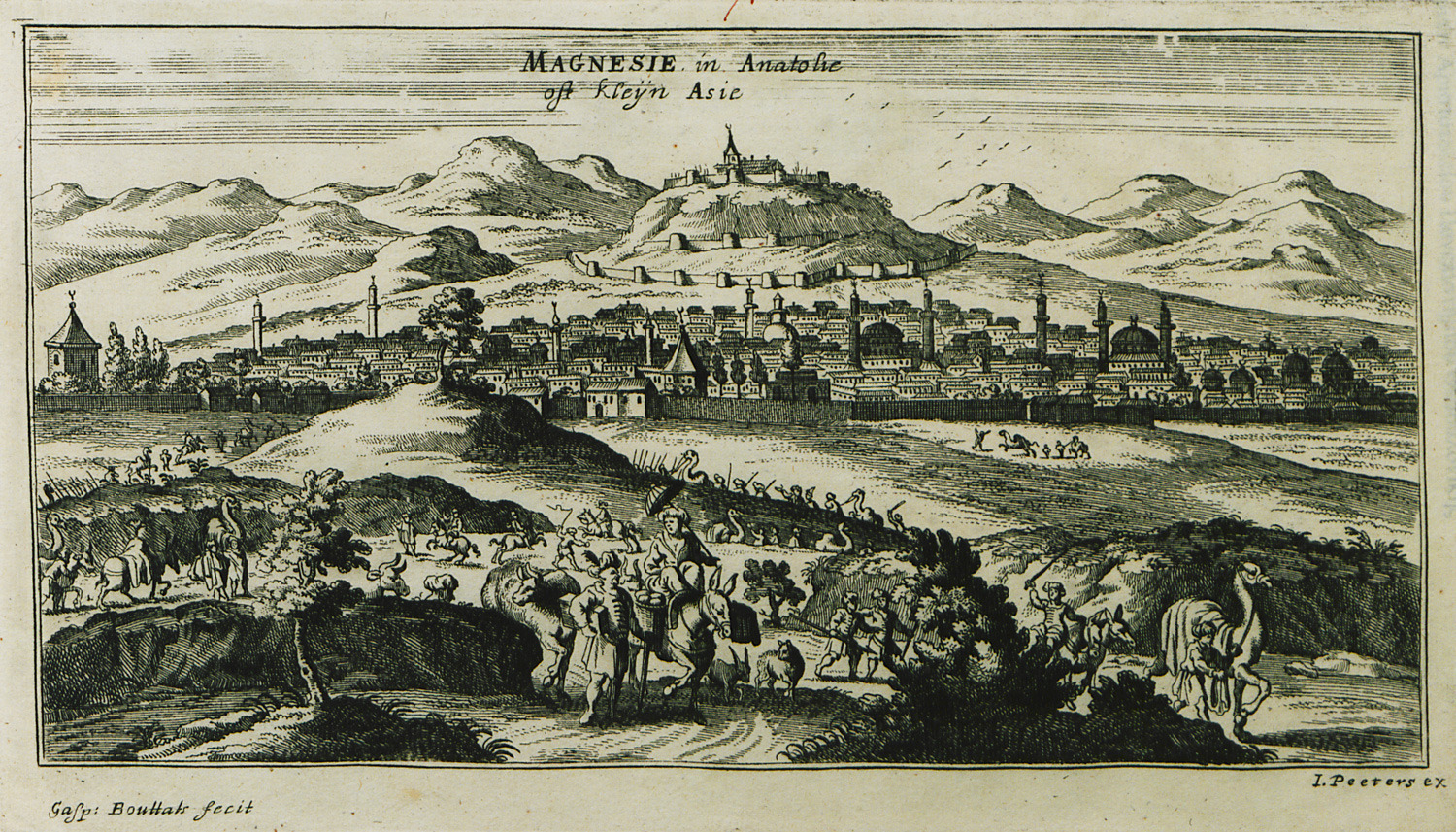 Jacob Peeters. Description des principales villes, havres et isles du golfe de Venise du coté oriental. Comme aussi des villes et forteresses de la Moree, et quelques places de la Grèce, Antwerp, Sur le marché des vieux Souliers, 1690.